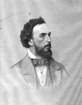 Engraving of American writer and editor Bayard Taylor. From The Poets and Poetry of America (17th edition), by Rufus W. Griswold, Parry & McMillan, 1856: p. 598.